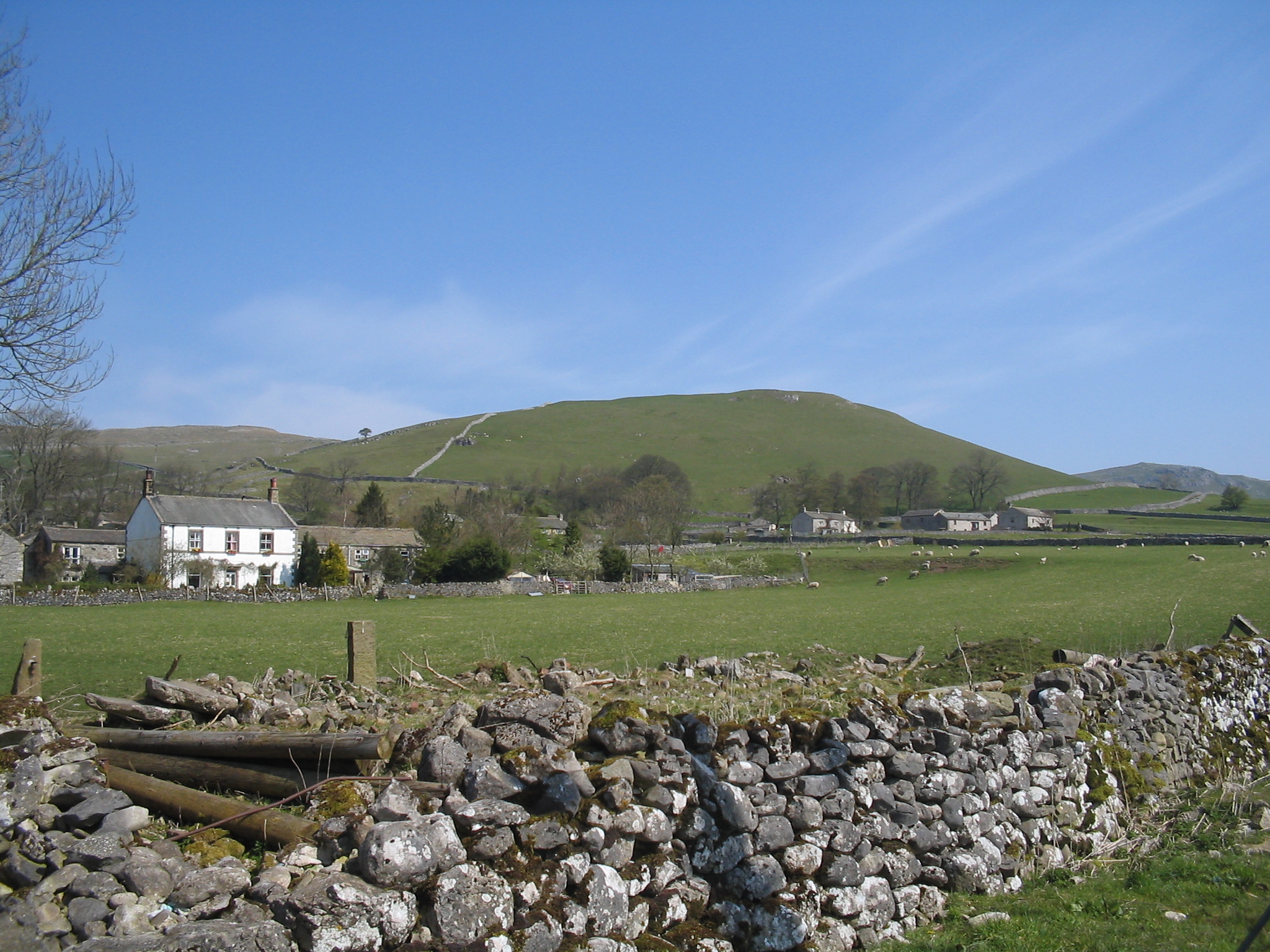 The countryside just south of the village of Malham in the Yorkshire Dales, England. The viewpoint is from the Pennine Way, which passes through Malham. David Benbennick took the picture on Sunday, April 24, 2005 at 12:01 PM (local time).